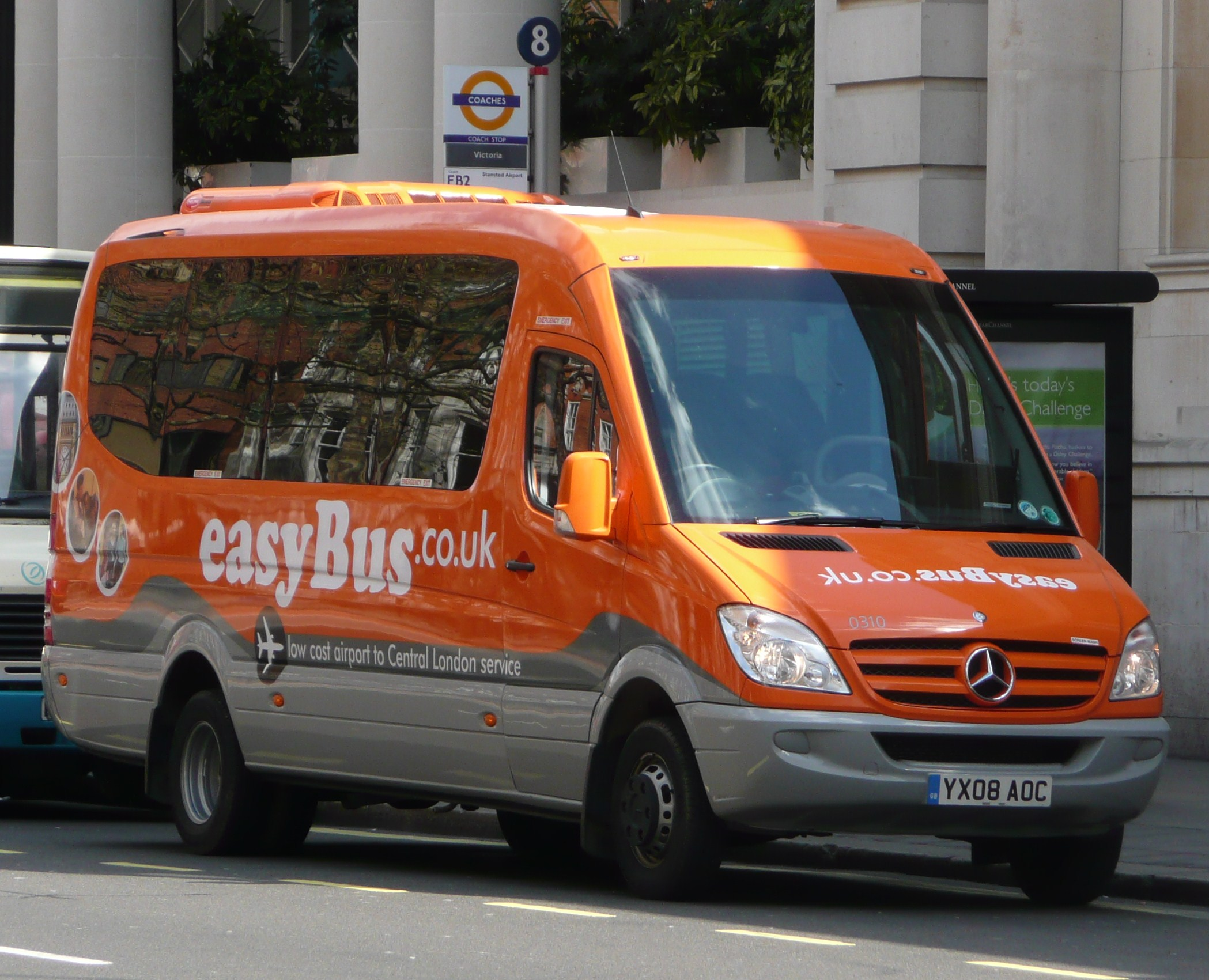 An Arriva Southern Counties (New Enterprise Coaches) Optare Soroco minibus on easyBus duties.